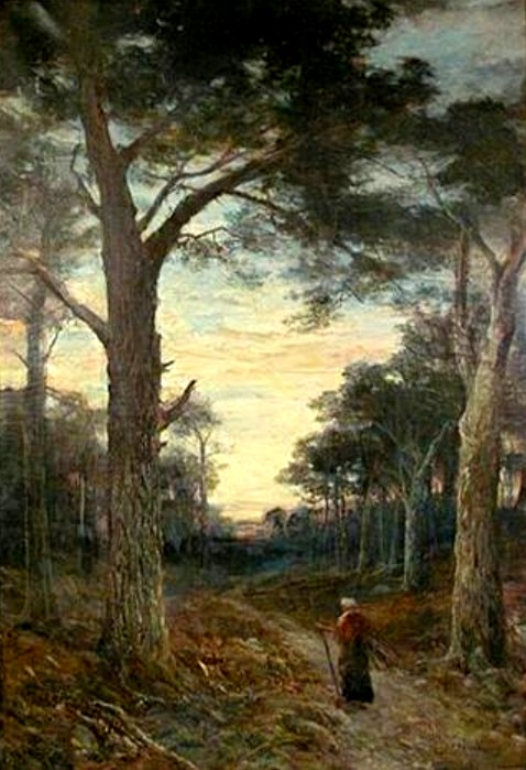 "The Gates of the Forest", 1910 Royal Academy, Oil on canvas, 42 1/2" x 29 1/2". Signed in the lower right corner